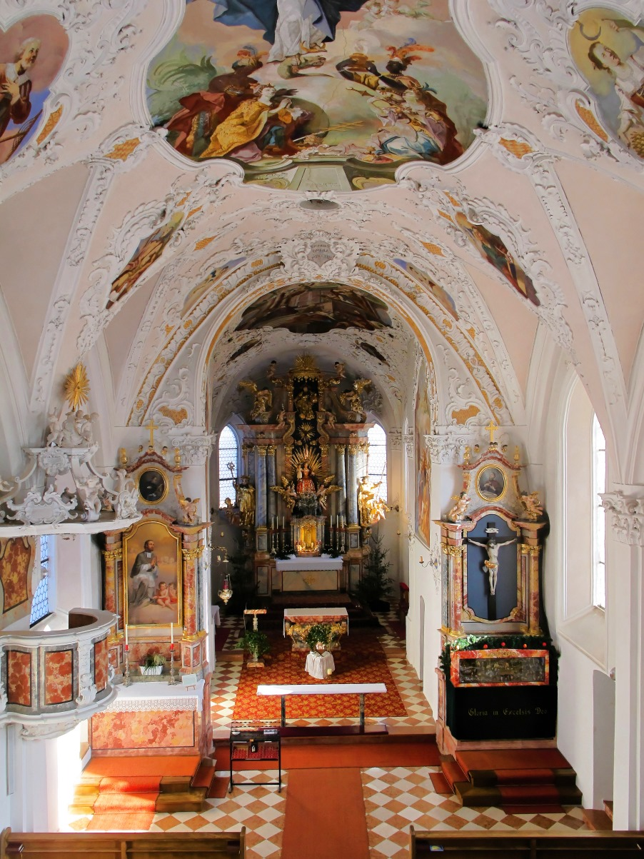 Dormitz (suburb of Village Nassereith), inside Church of Pilgrimage "St. Nikolaus"